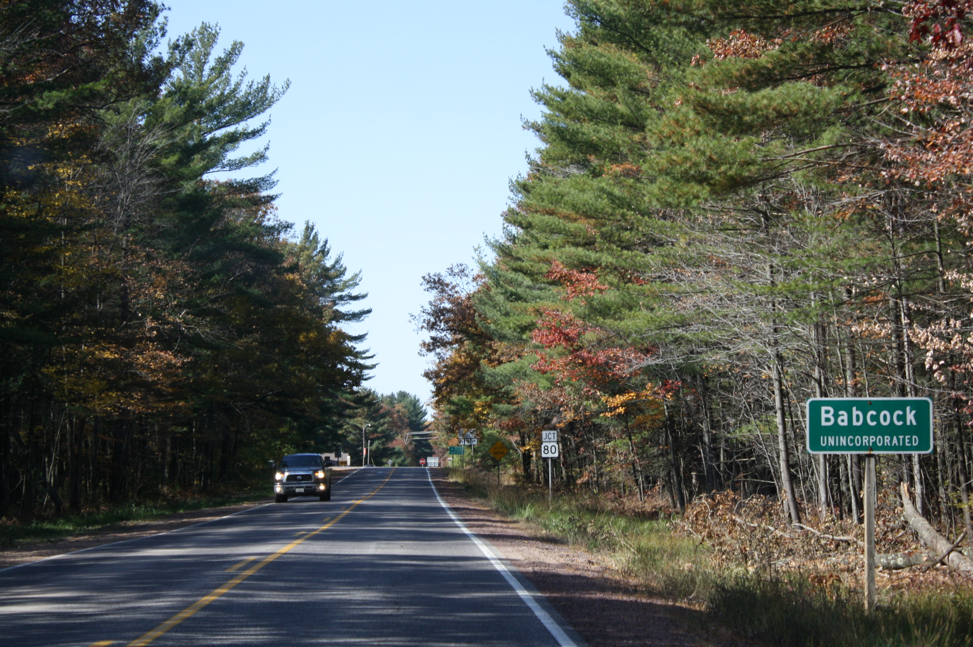 The sign for Babcock, Wisconsin along Wisconsin Highway 173.